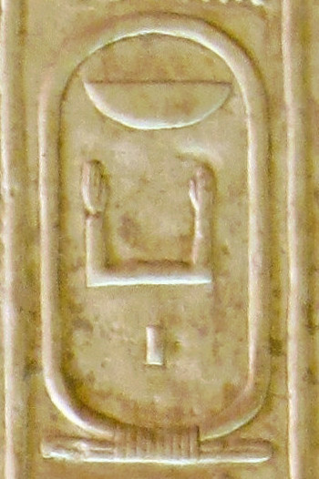 Cartouche 15, Abydos King List. Temple of Seti I, Abydos, Egypt